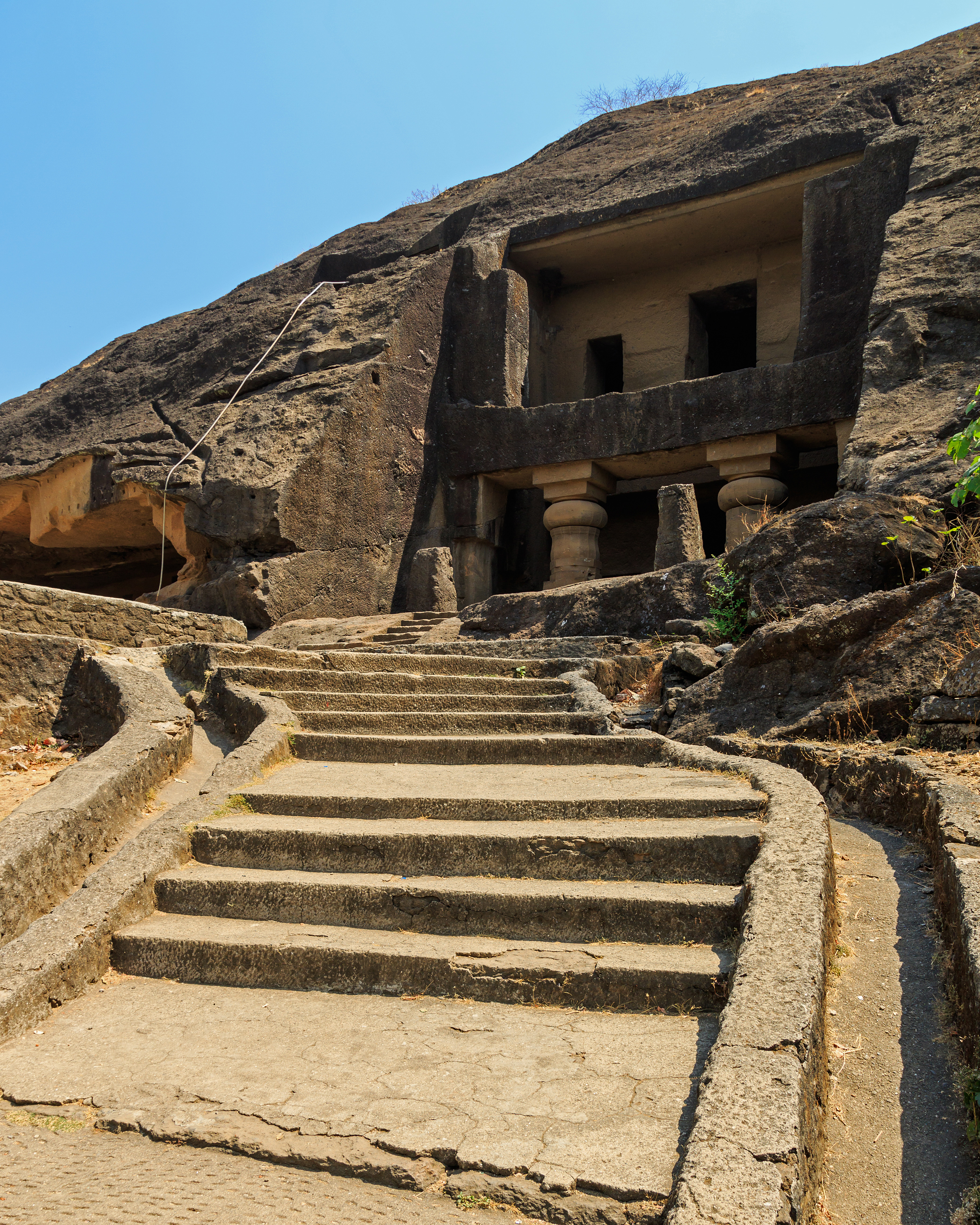 Kanheri Caves in Sanjay Gandhi National Park in Mumbai, India